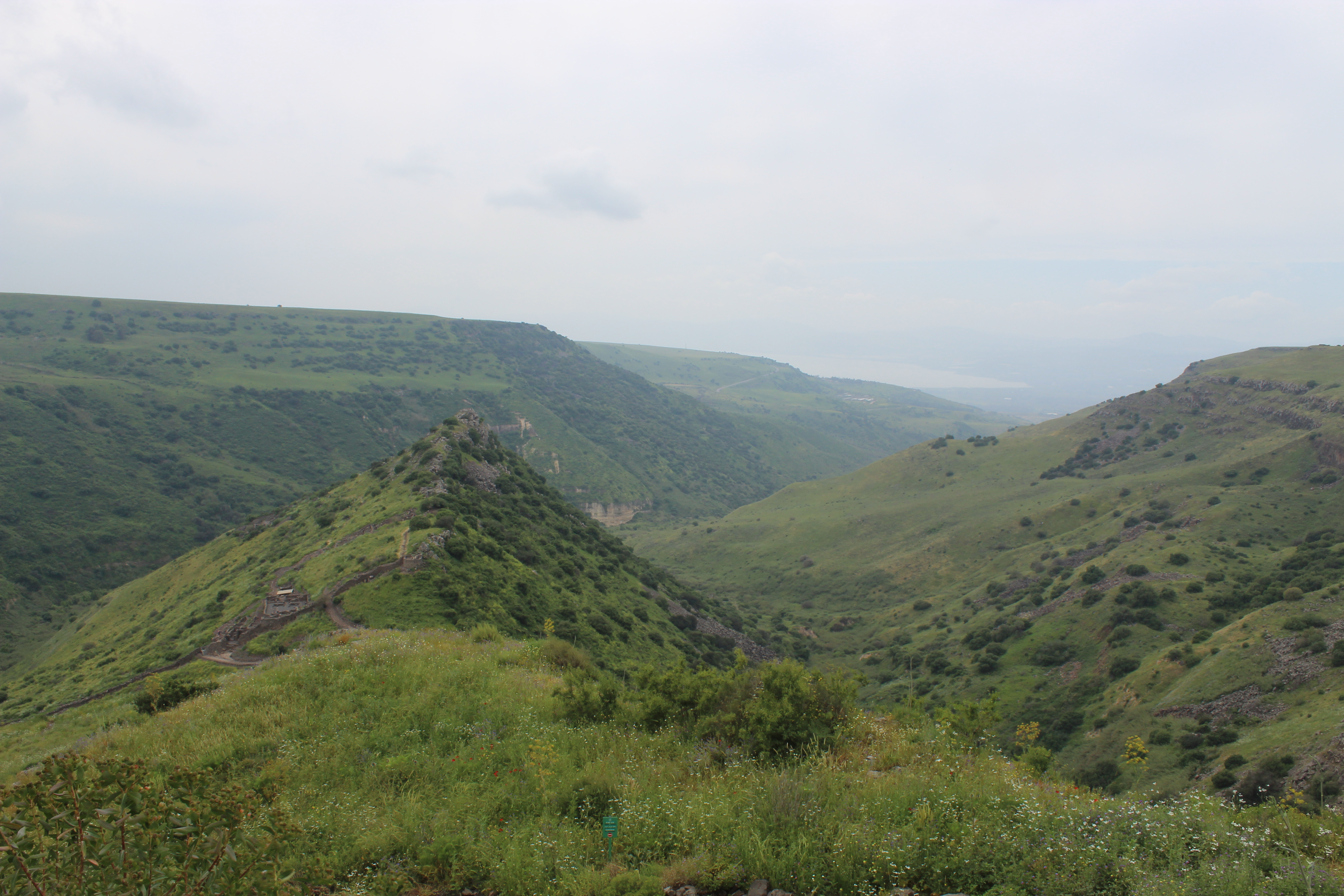 Gamla mountain in the Golan Heights